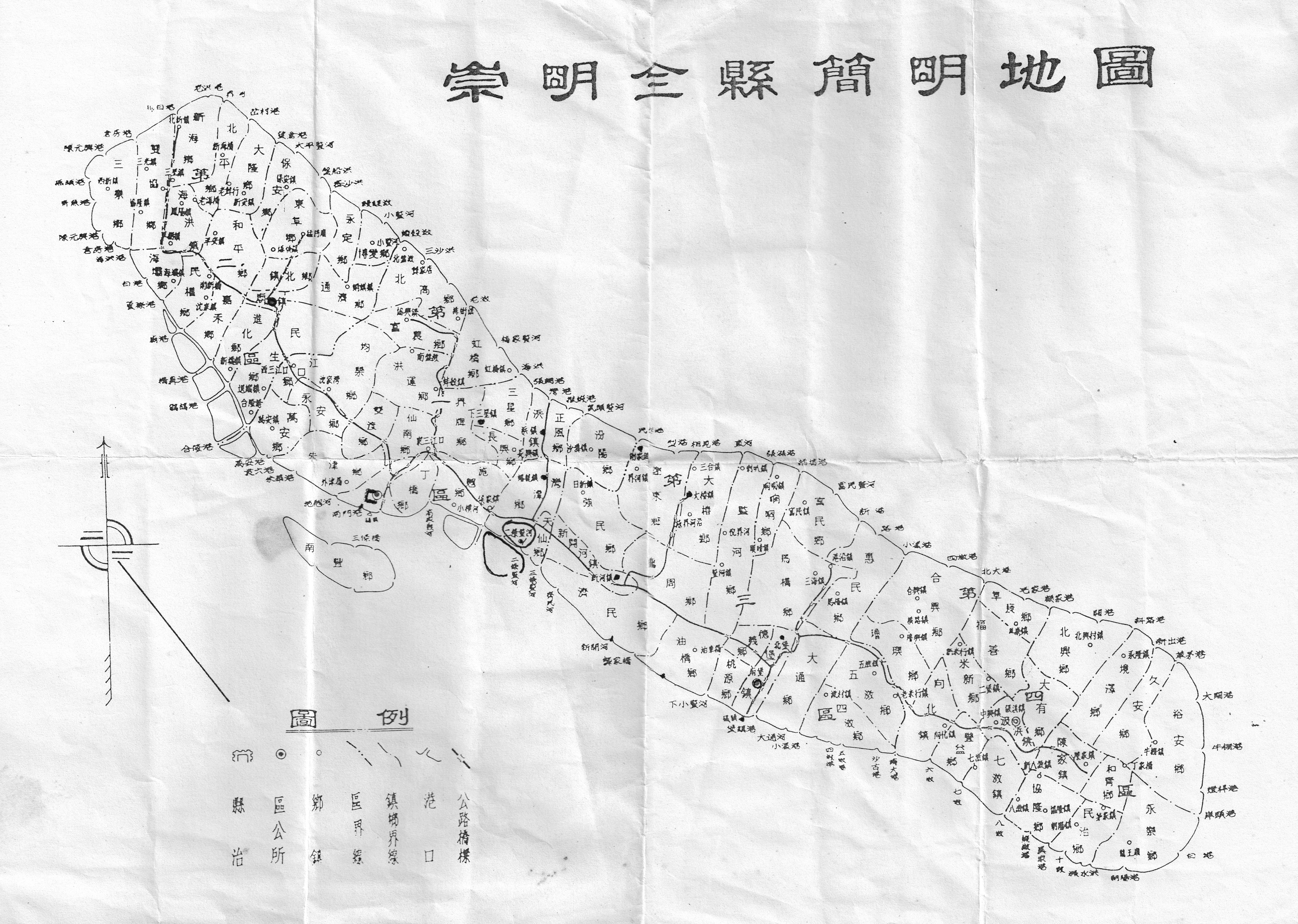 A somewhat inaccurate and outdated map of Chongming Island in Chinese. Should not be used except in historic context.